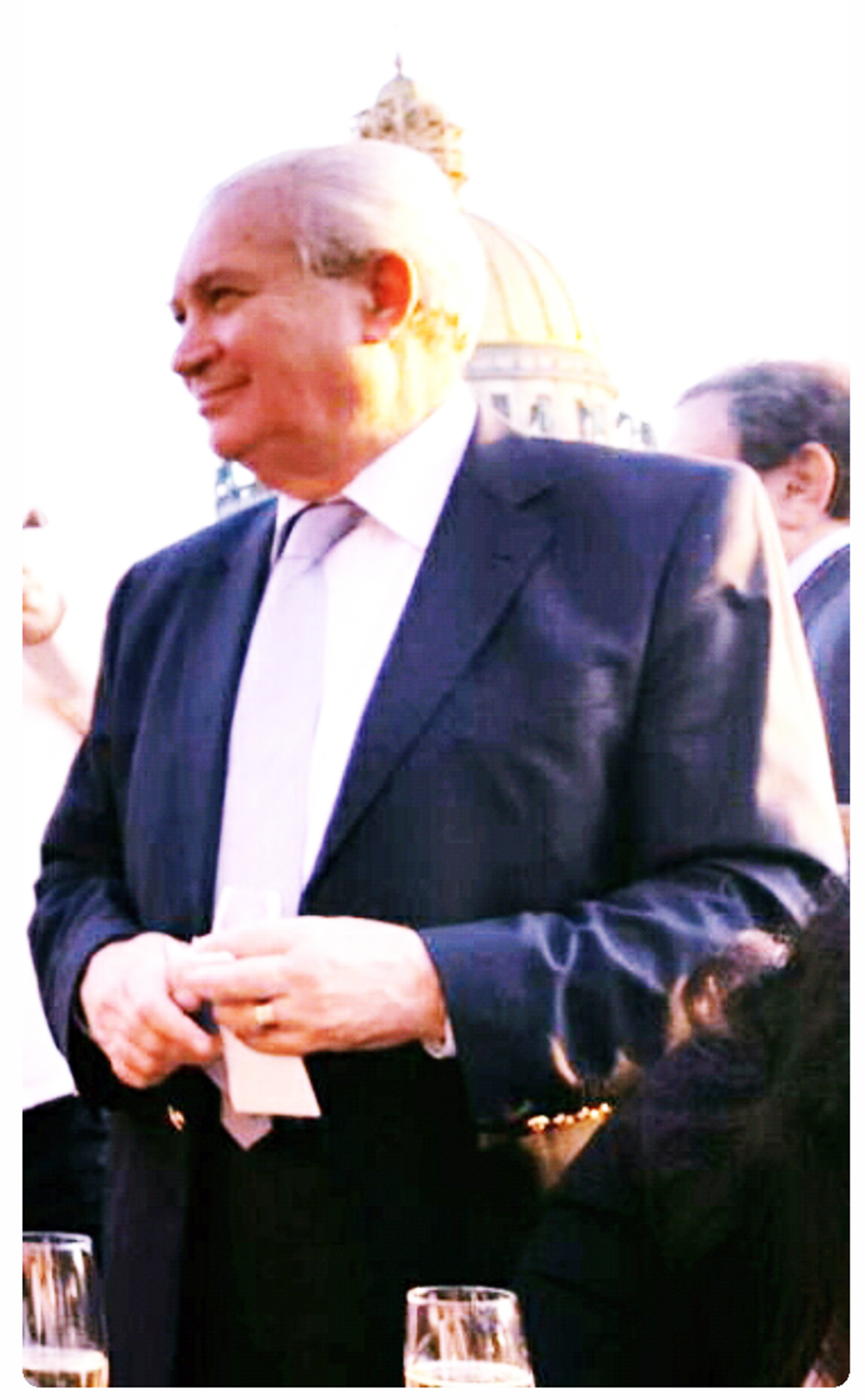 Aydin Sefa Akay Doctor in Human Rights United Nations Judge for Rwanda Ambassador Researcher in Human Rights